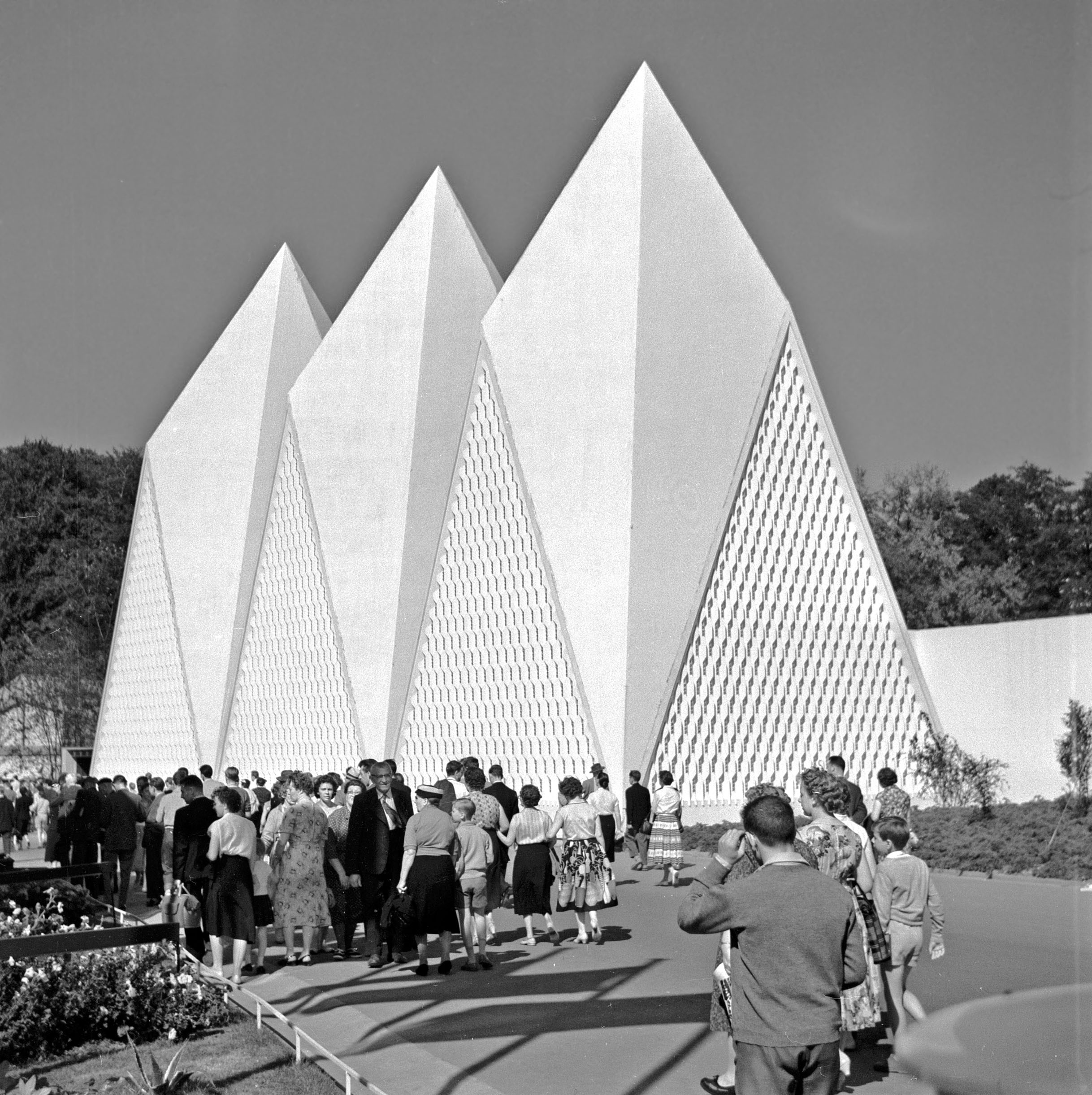 Expo 1958 building of United Kingdom